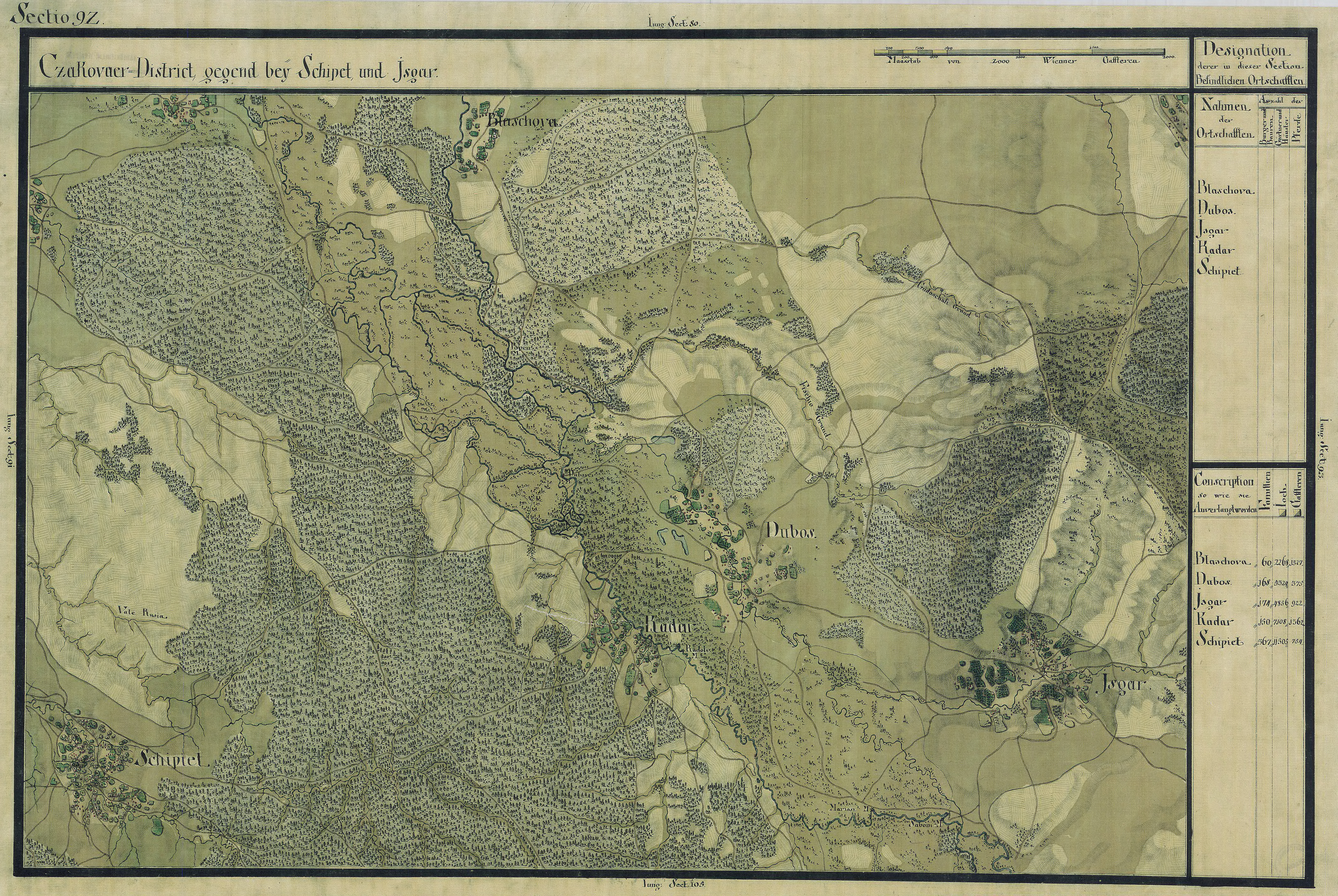 The Banat region in the cadastral maps: Josephinische Landesaufnahme, 1769-72. Josephinische Landaufnahme pg092